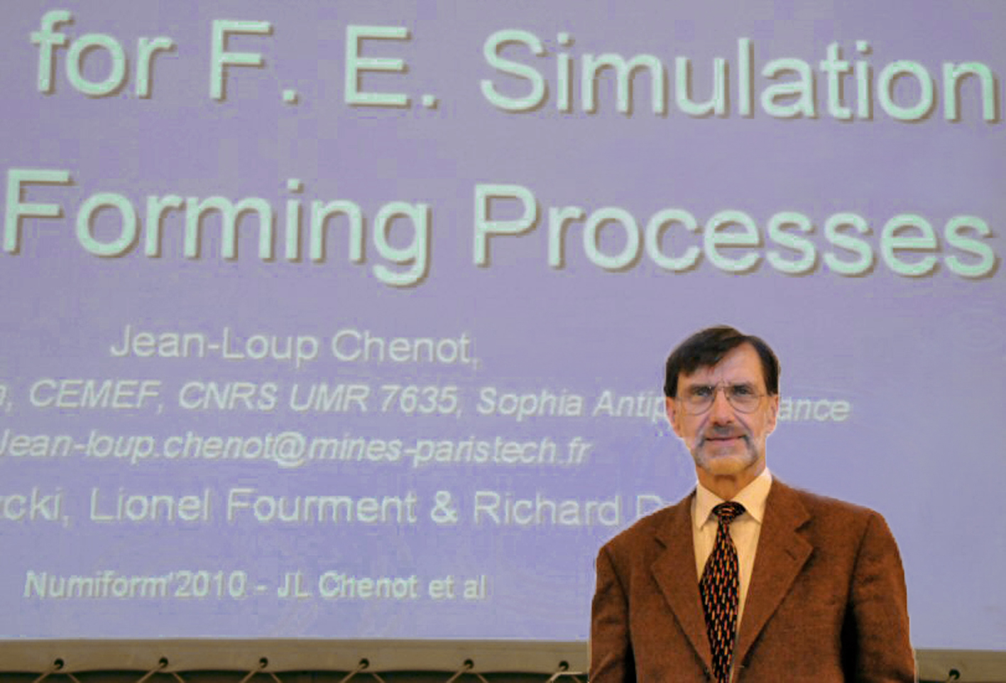 Portrait of Jean-Loup Chenot